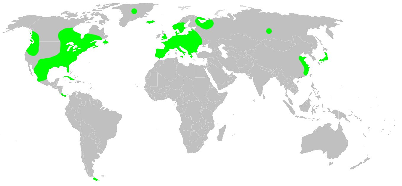 Known world distribution of Larinioides sclopetarius, after data from British Arachnological Society, 2006